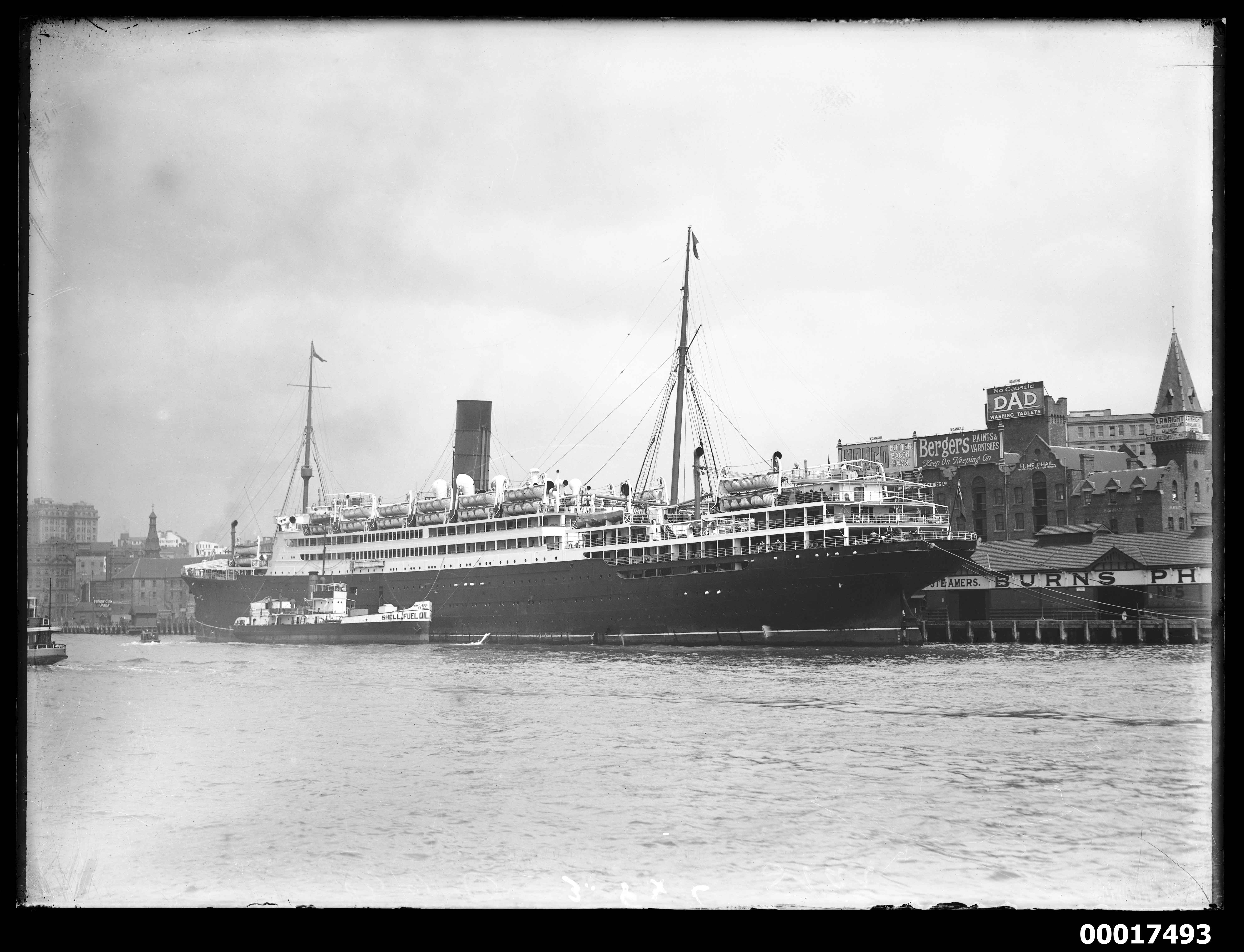 This image depicts Cunard Line's RMS FRANCONIA during its first visit to Sydney berthed at West Circular Quay on 5 March 1927. The Australasian United Steam Navigation building is visible in the background as well as cranes being used to construct the Sydney Harbour Bridge. The vessel next to FRANCONIA is Shell Fuel Oil's TIGA. The Burns Philp wharf is also visible. Newspaper articles reported that the liner was carrying 400 tourists. The ANMM undertakes research and accepts public comments that enhance the information we hold about images in our collection. This record has been updated accordingly. Photographer: unknown Object no. 00017493